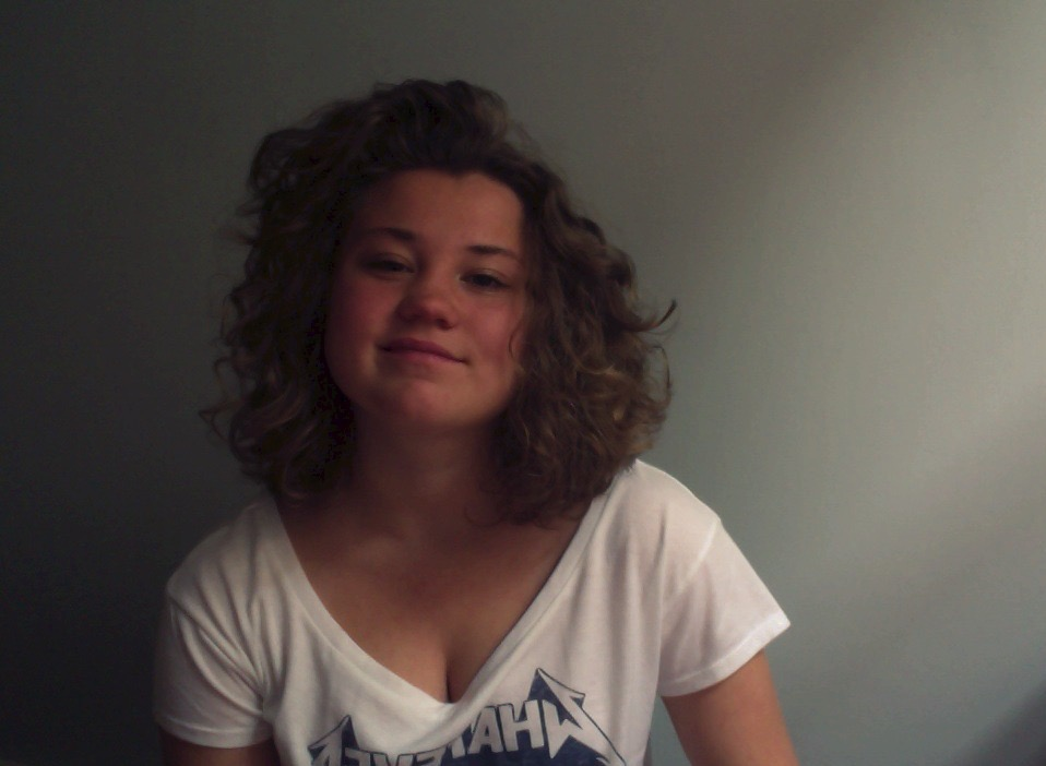 Isabella Luke in 2014